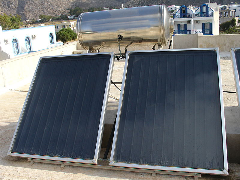 Solar panels for water heating on top of a hotel in Perissa, Santorini, Greece.